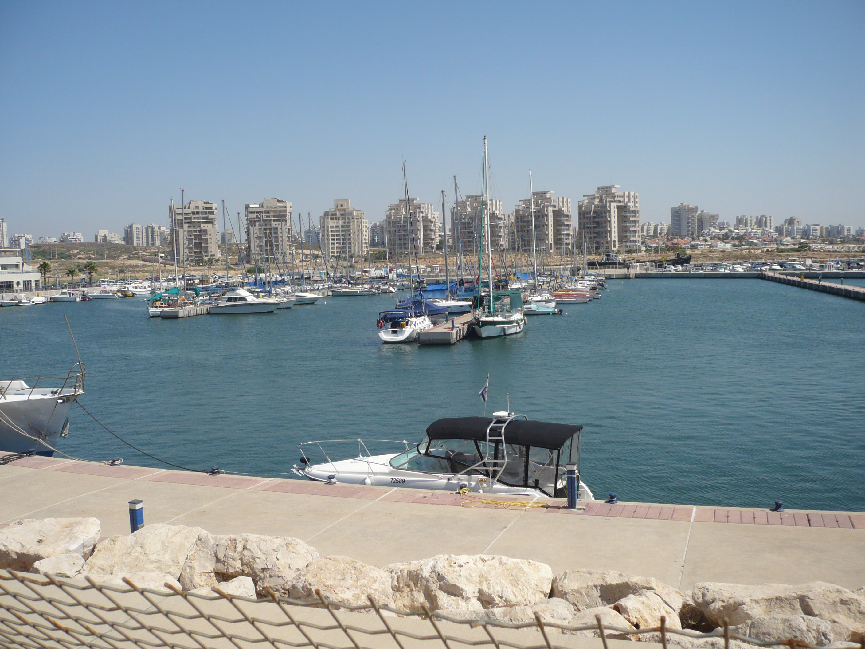 This is a view on Ashdod marina looking from North West